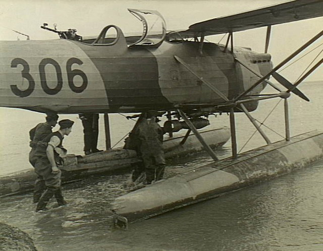 Western Desert, North Africa. 19 February 1942. Armament personnel bombing-up one of the Dornier Do 22Kj seaplanes of a Royal Yugoslav Air Force unit operating in the Middle East.